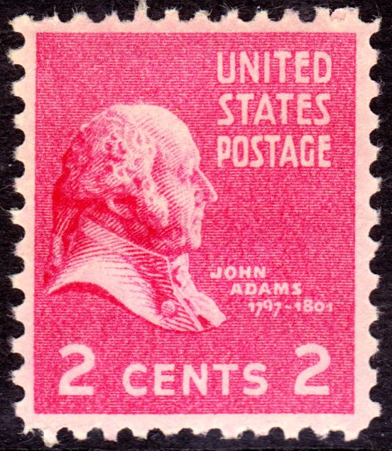 US Postage stamp: John Adams, 1938 issue, 2c